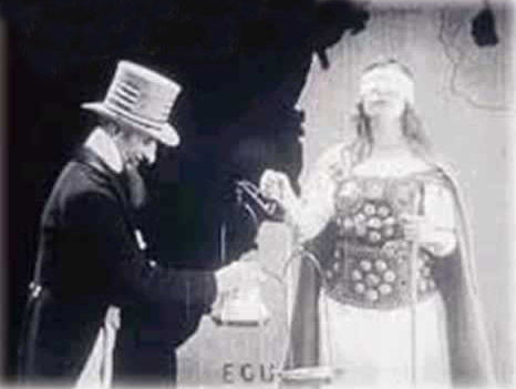 Unknow actors from "Garras de Oro" film.